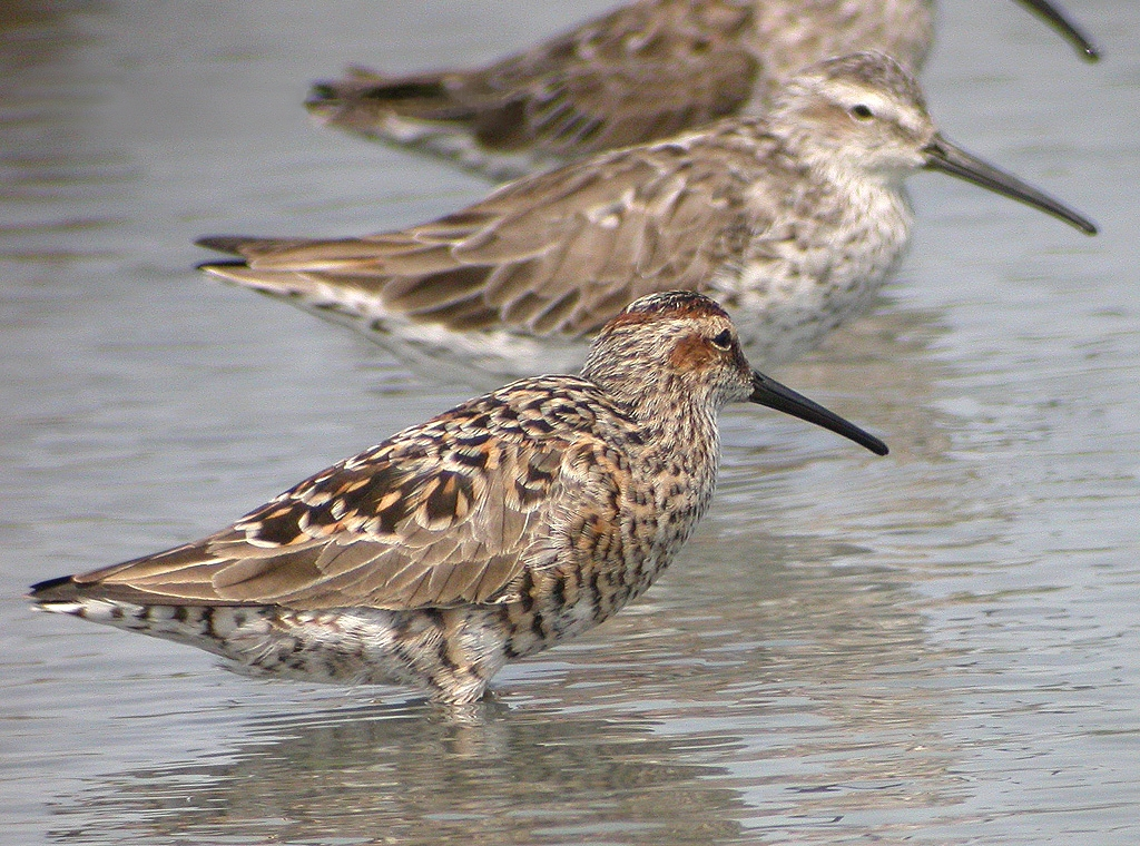 Stilt Sandpiper, Micropalama himantopus or Calidris himantopus Original description: In April some of the adults are molting into alternate plumage before the long trip to north Canada. Here we see the breeding plumage nicely contrasted with basic plumage on the birds behind. Indian Point Park, Texas, with Bob Stewart.